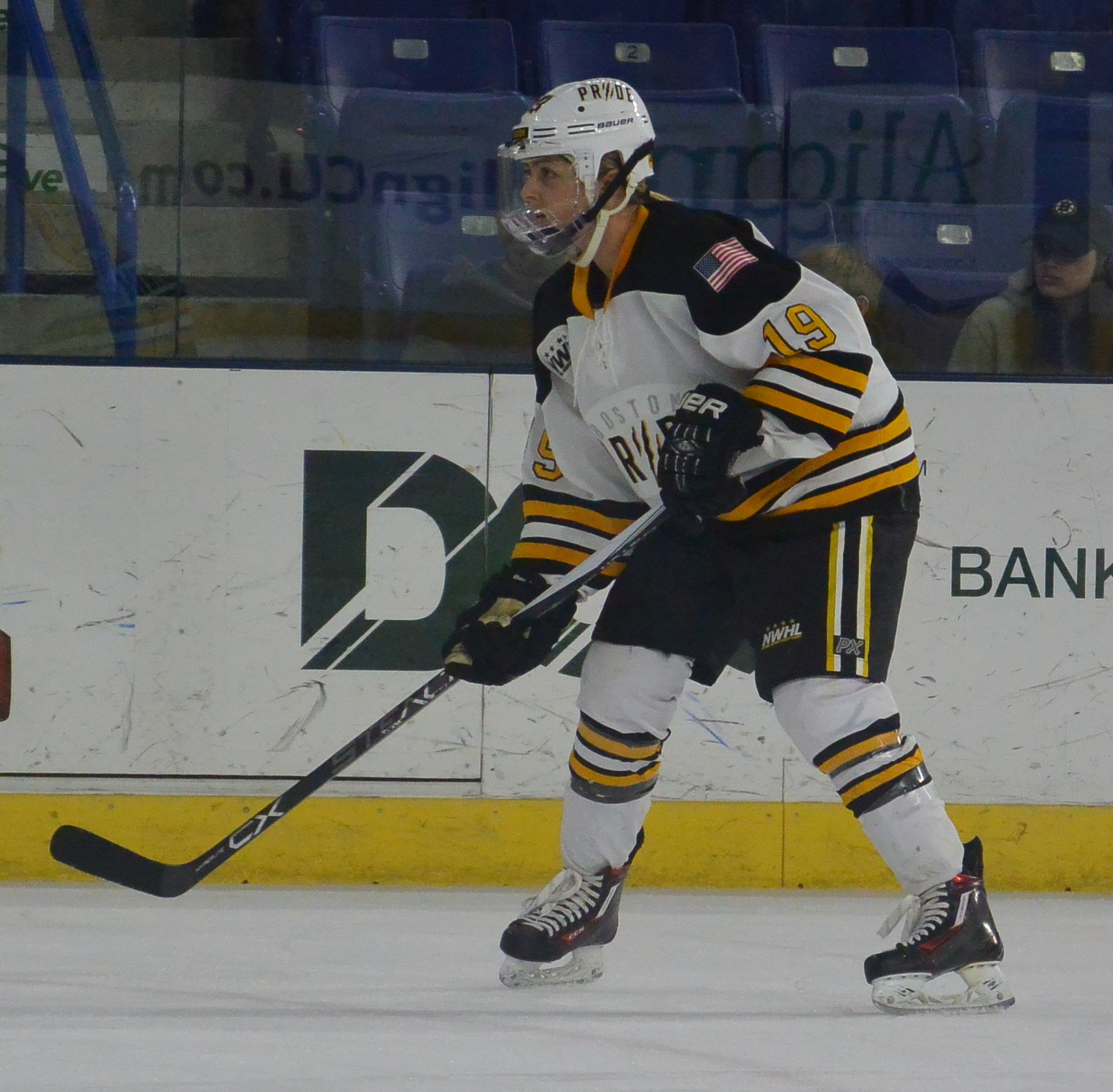 Gigi Marvin playing for the Boston Pride during the Isobel Cup 2017 championship game in Lowell, MA